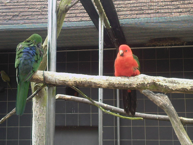 A pair of Australian King Parrots (Alisterus scapularis) (the red bird is the male and the green bird is the female) at the Leeds Castle, England.